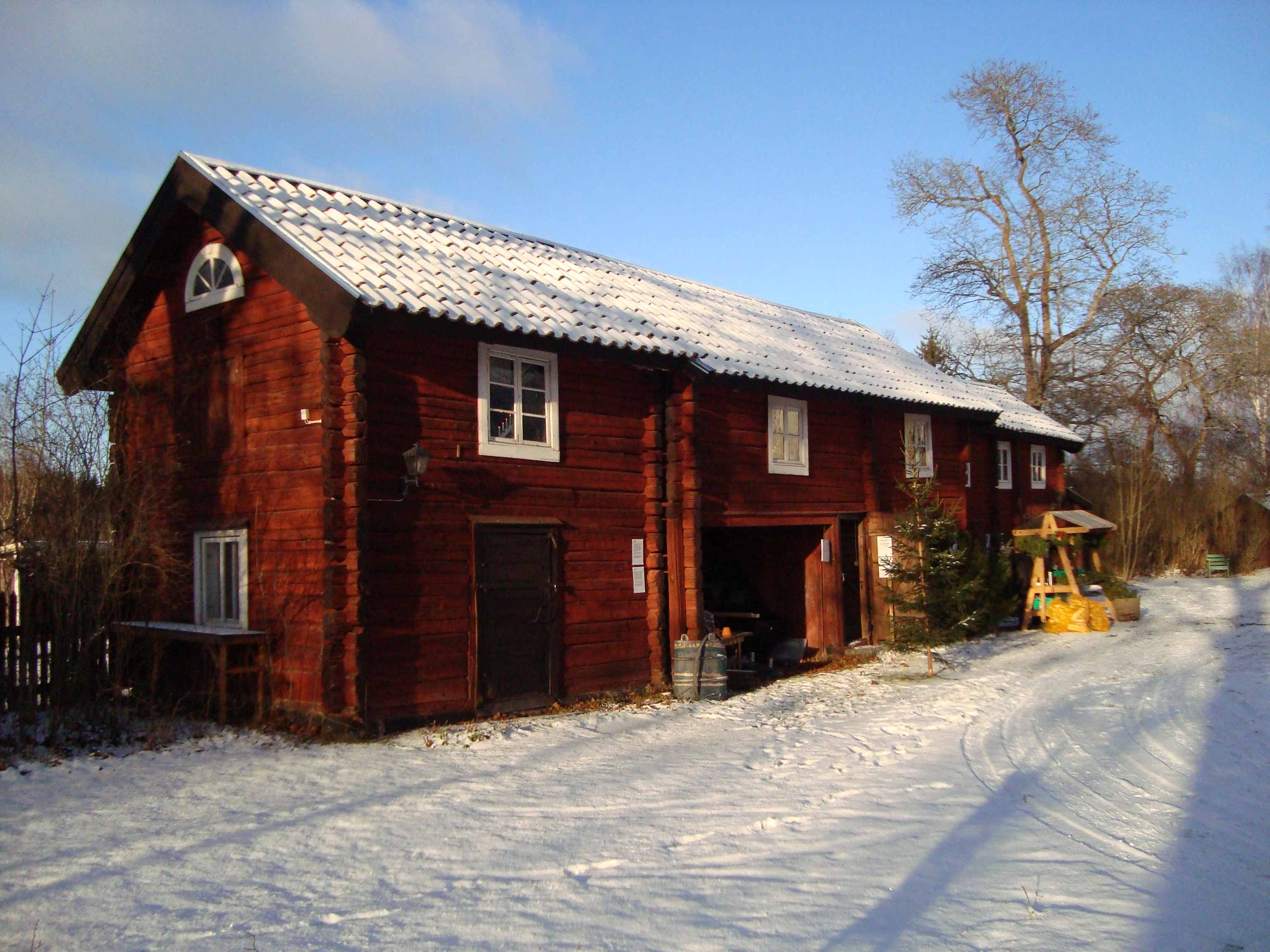 Tolvmansgården, birthplace for Nobel prize awarded author Erik Axel Karlfeldt